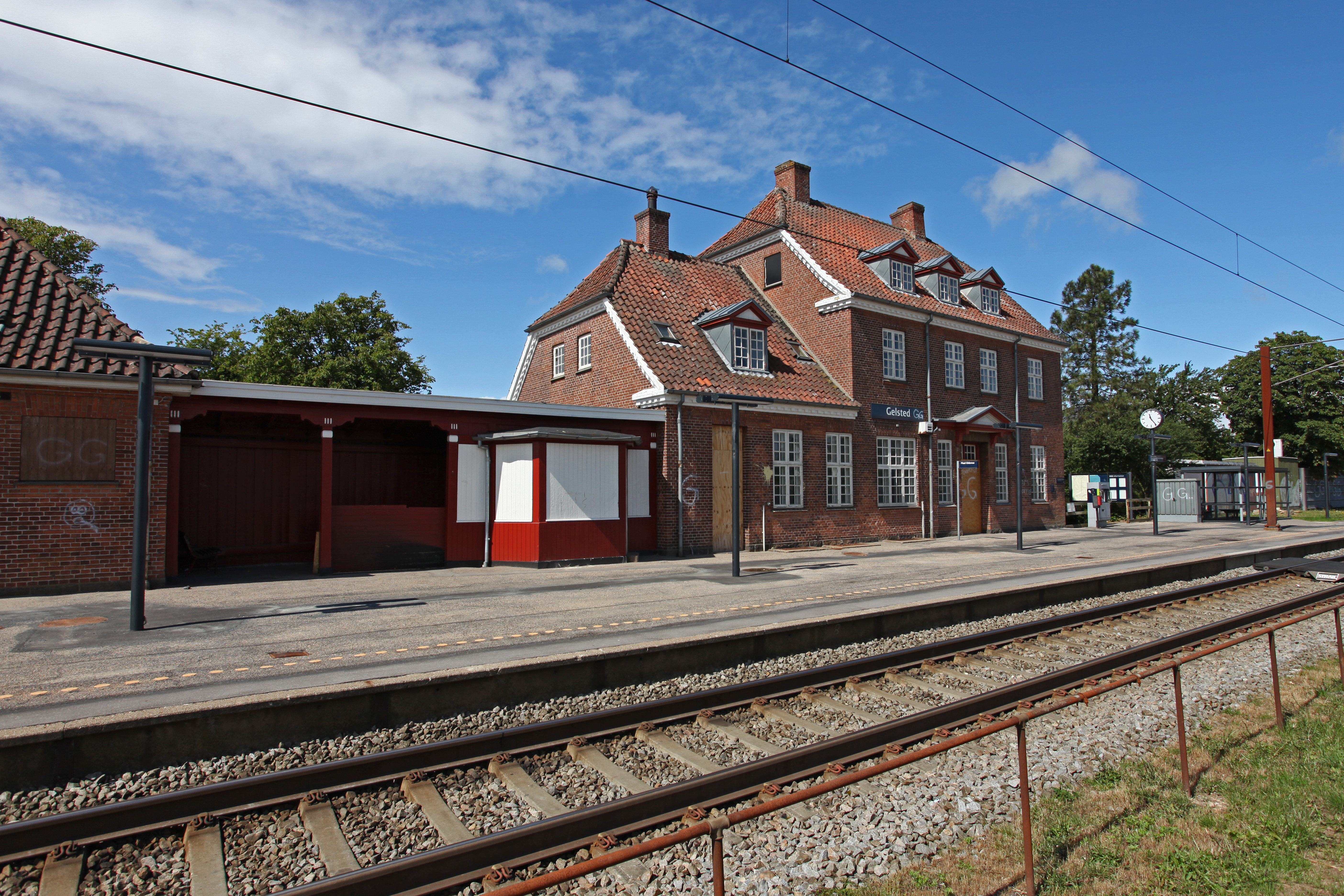 Picture of Gelsted Railway Station (Fyn - Denmark)